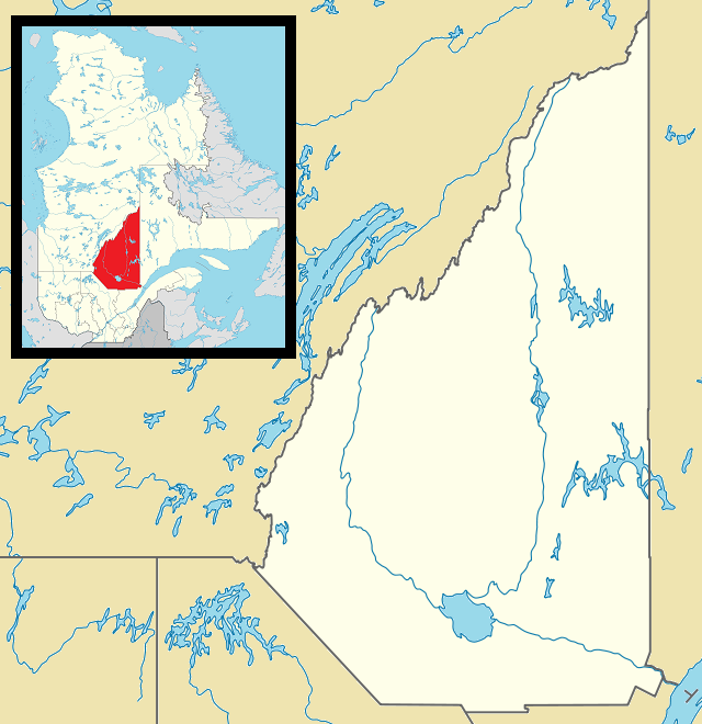 Map of Lac-Saint-Jean region of Québec Province for use in location map templates.